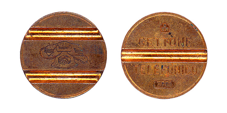 Italian telephone coin (1959-2001)